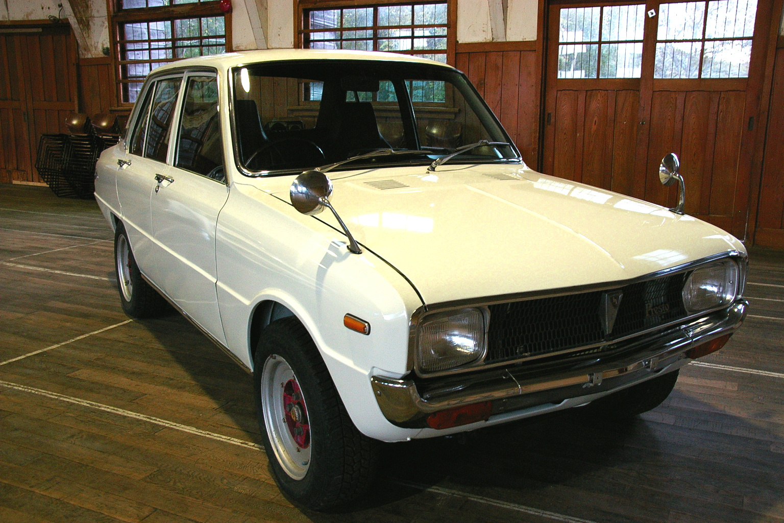 Mazda Familia 2nd generation 4-door sedan.